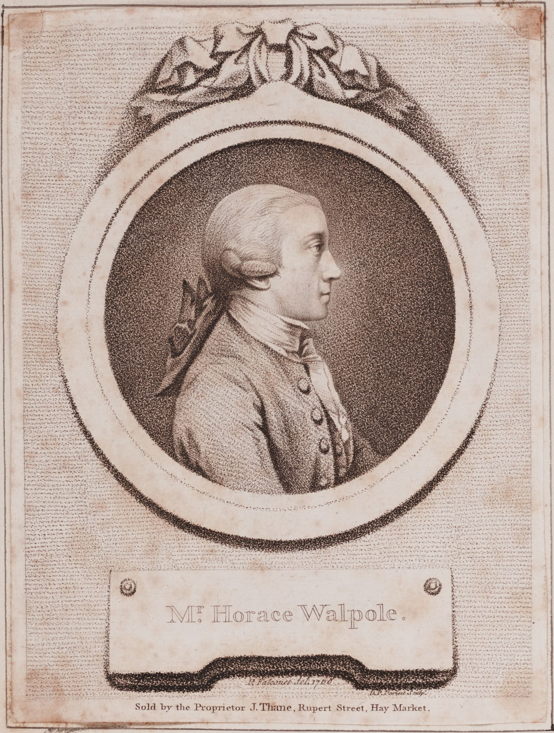 Portrait of a young Horace Walpole (1717-1797)